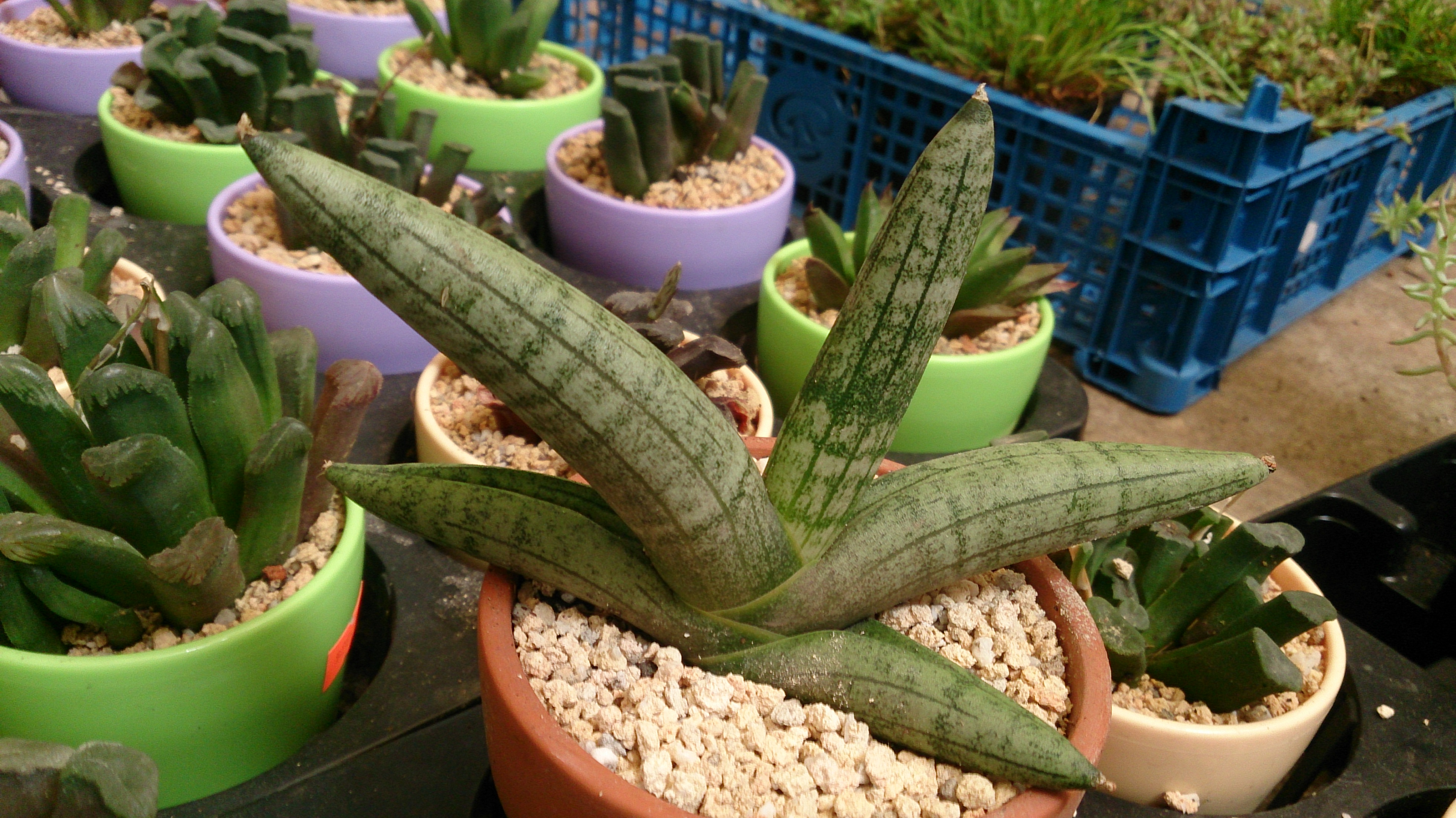 Sansevieria cylindrica var. patula 'Boncel'